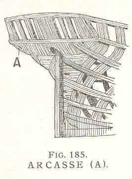 Subject: Shipbuilding, Ships--Design and construction Tag: Vessels